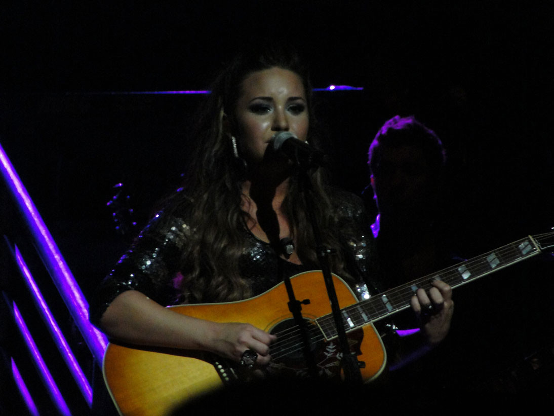 Demi Lovato performing "Catch Me" at Club Nokia in Los Angeles